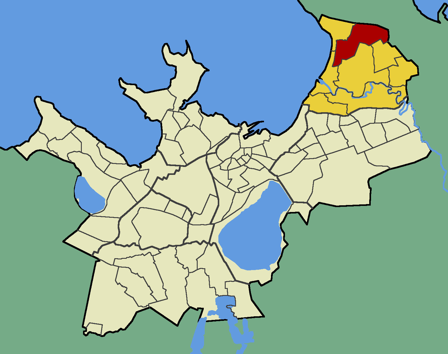 Map of Tallinn (Estonia) with borders of the quarters, Pirita district and Mähe quarter emphasised